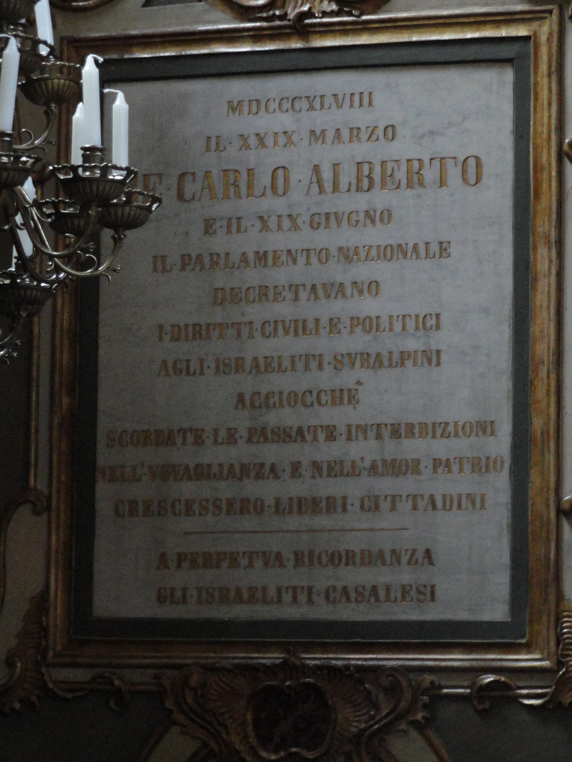 Casale Monferrato (Piemonte - Italy): The synagogue - Plaque commemorating the emancipation of the Jews in Italy.